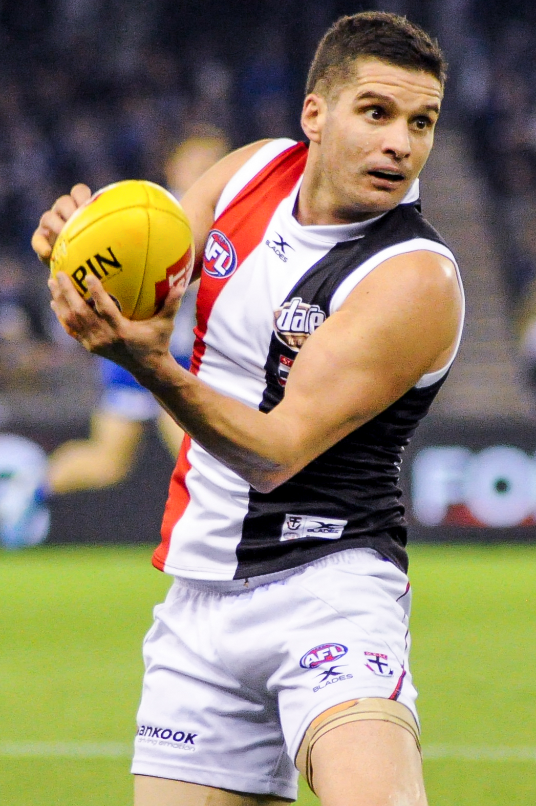 Leigh Montagna during the AFL round thirteen match between North Melbourne and St Kilda on 16 June 2017 at Etihad Stadium in Melbourne, Victoria.